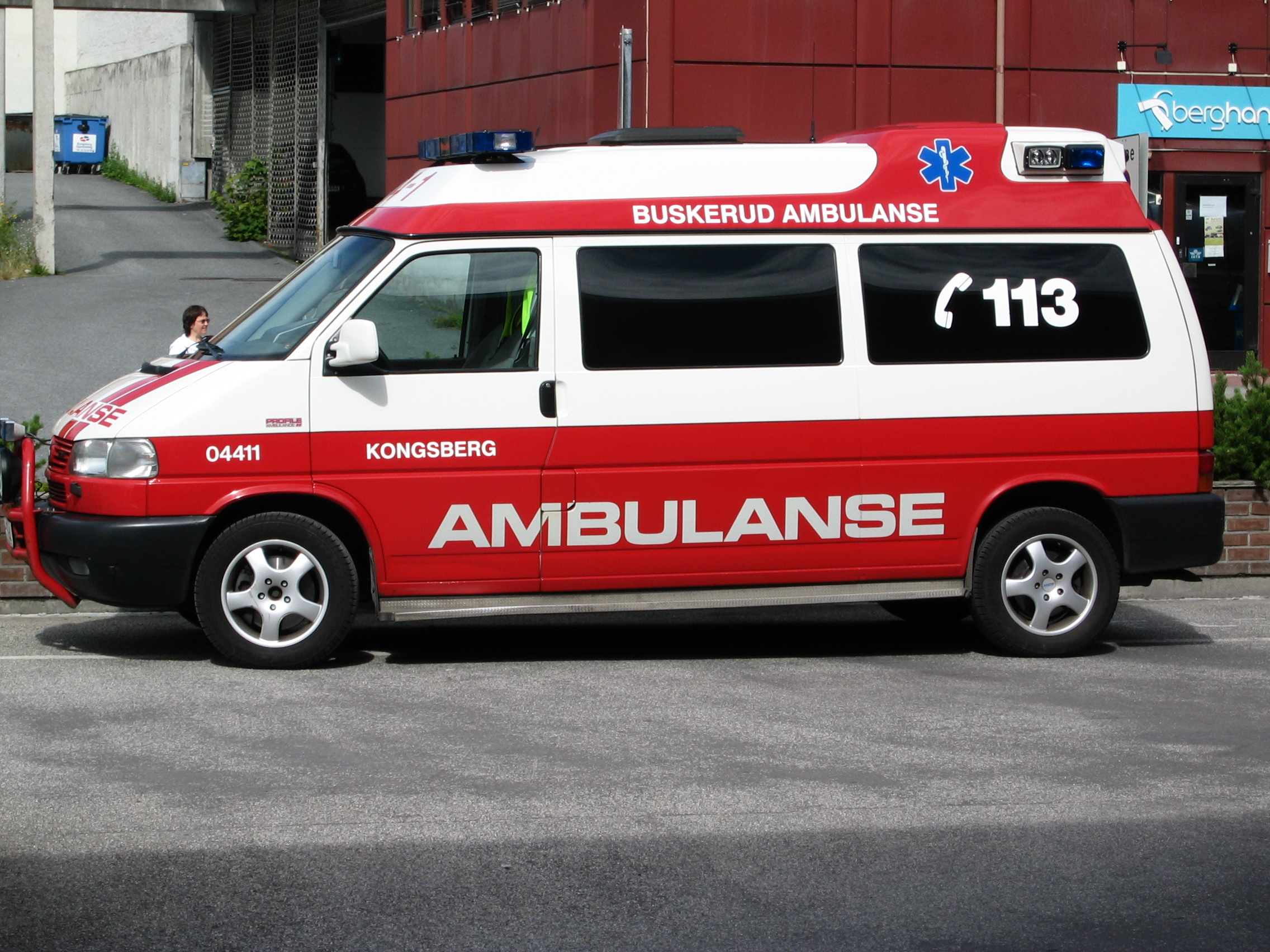 Description A Norwegian Volkswagen ambulance in Kongsberg, displaying the old (pre-2005) red-and-white livery. Date 23 June 2005 Source Own photo Photographer Harald Hansen